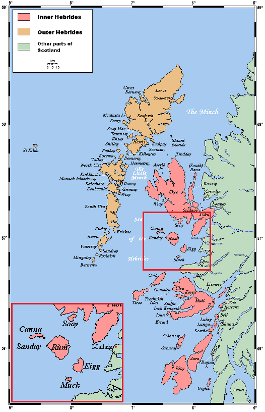 A map of the Small Jsles within the Hebrides of Scotland